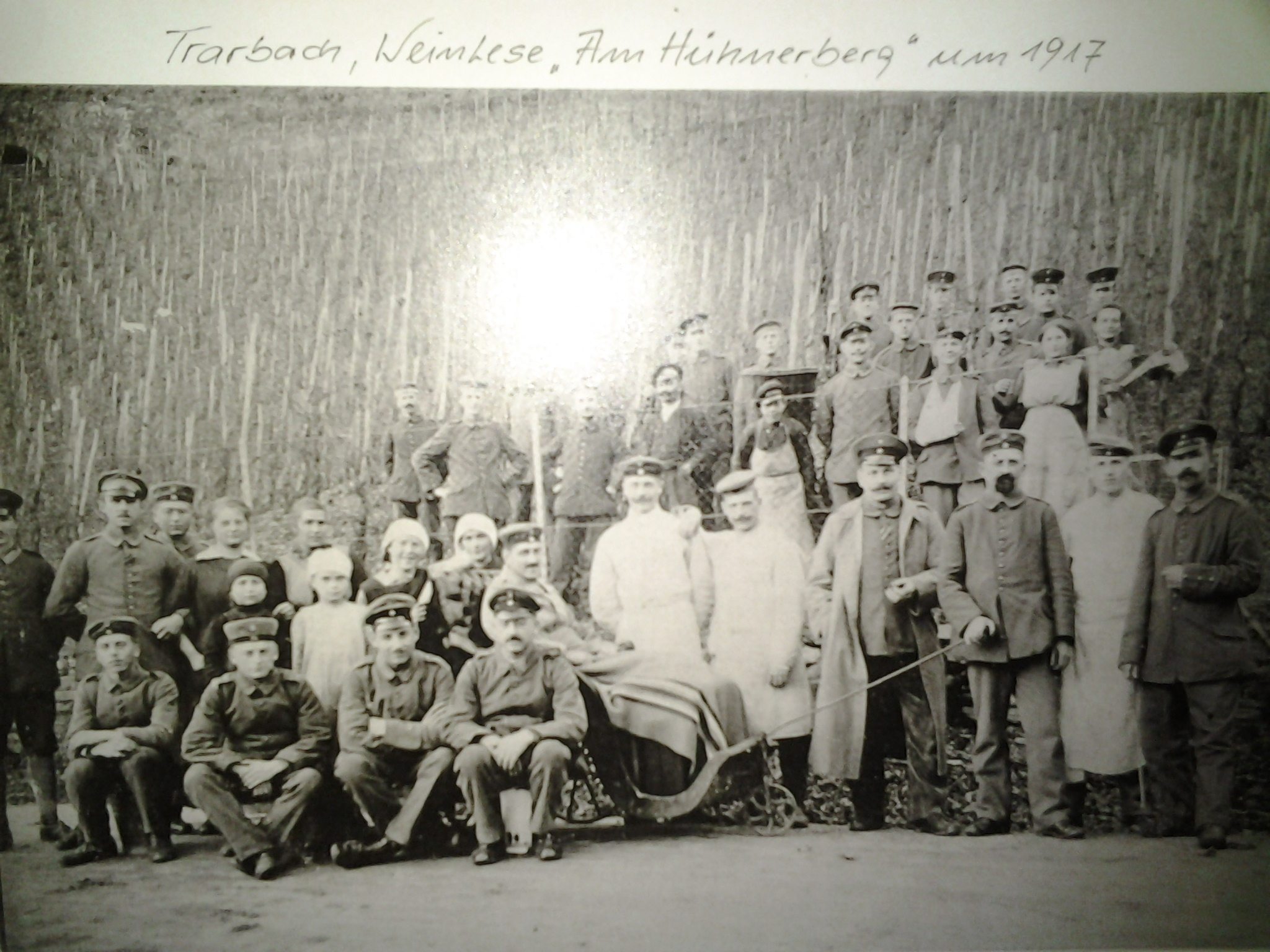 Grape harvest in the vineyard Trarbacher Hühnerberg